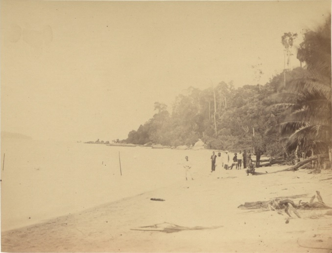 Malayan Peninsula. View looking South from beach on Pulo Pangkor. Straits Settlements June 1874.